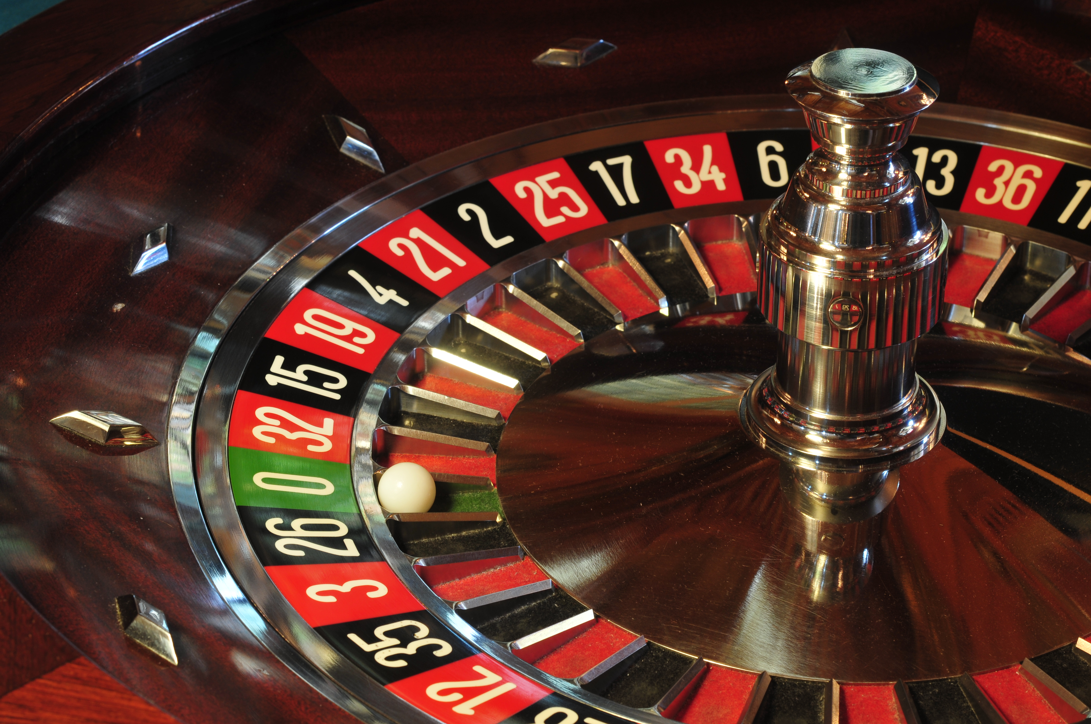 Wiesbaden, Germany, Spielbank